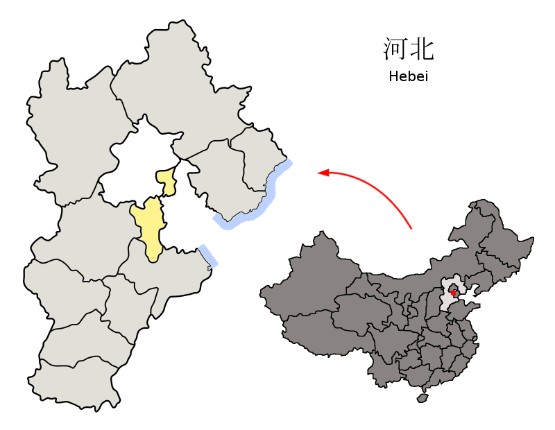 Location of Langfang Prefecture (yellow) within Hebei Province of China Map drawn in december 2007 using various sources, mainly : Hebei Province administrative regions GIS data: 1:1M, County level, 1990 Hebei Counties map from